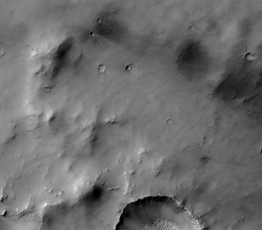 Dawes Crater as seen by hirise. Location is 9.3 degrees south latitude and 36.9 degrees east longitude. Image was taken by the Mars Reconnaissance Orbiter's HiRISE. The HiRISE camera was built by Ball Aerospace and Technology Corporation and is operated by the University of Arizona. Image courtesy NASA/JPL/University of Arizona.